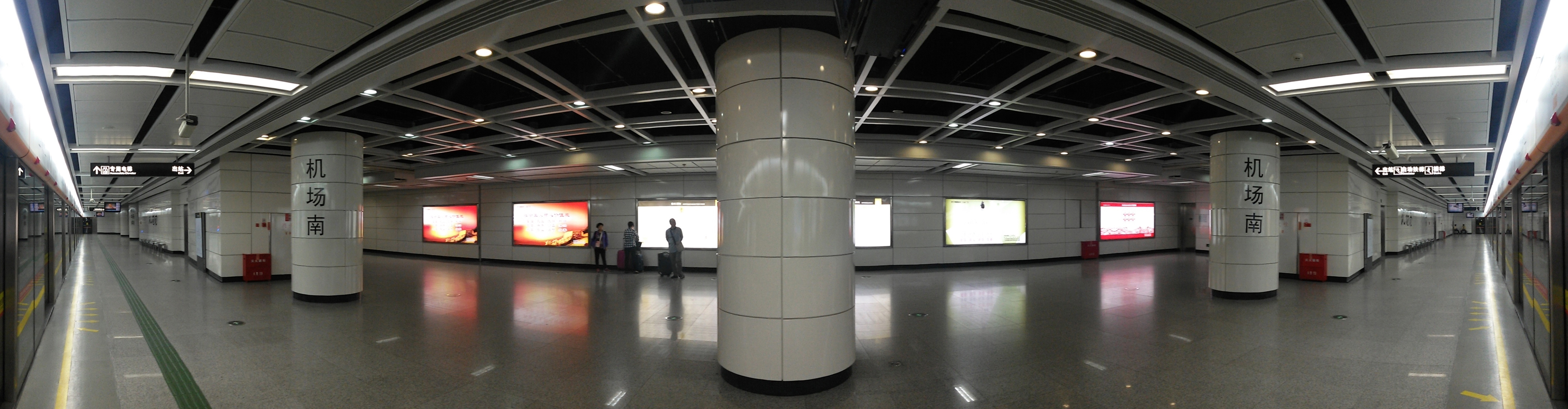 FULL SIGHT of Platform for Airport South Station (Towards Airport North) in Guangzhou Metro.